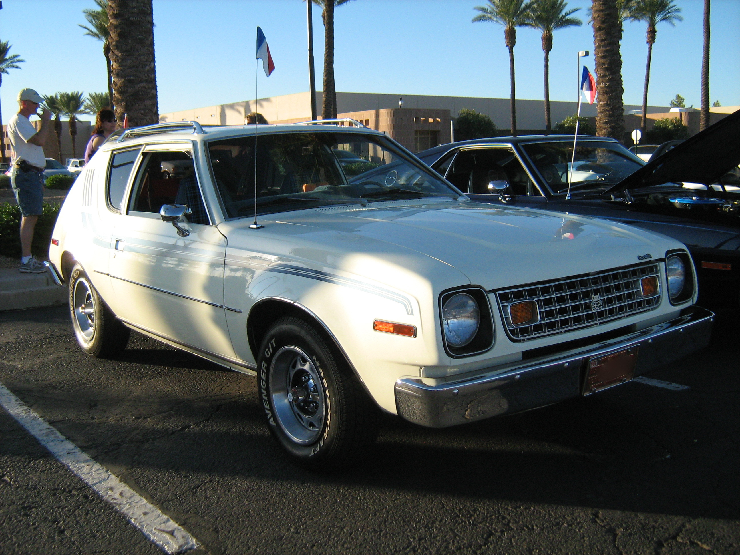 1977 American Motors Corporation (AMC) Gremlin, A two-door subcompact. Front view of a "Custom" model finished in white with blue stripes and interior. (Note: the little Gremlin mascot in the center of the grill is NOT original equipment!)